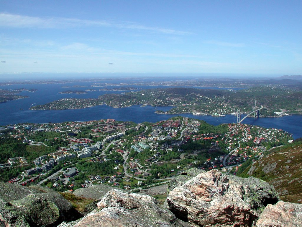 View from Mount Lyderhorn toward Askøy and Øygarden, Bergen - Norway.